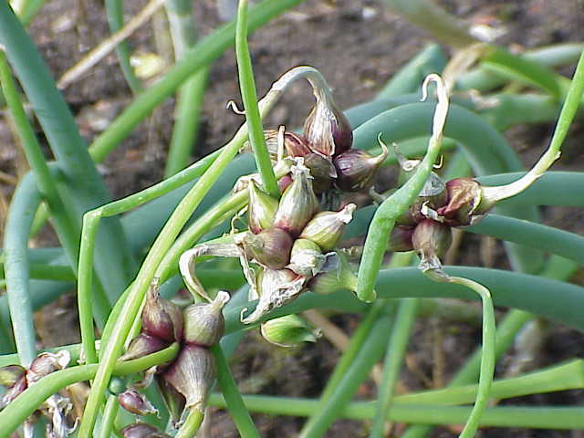 Species: Allium fistulosum bulbifera Family: Liliaceae Image No. 1